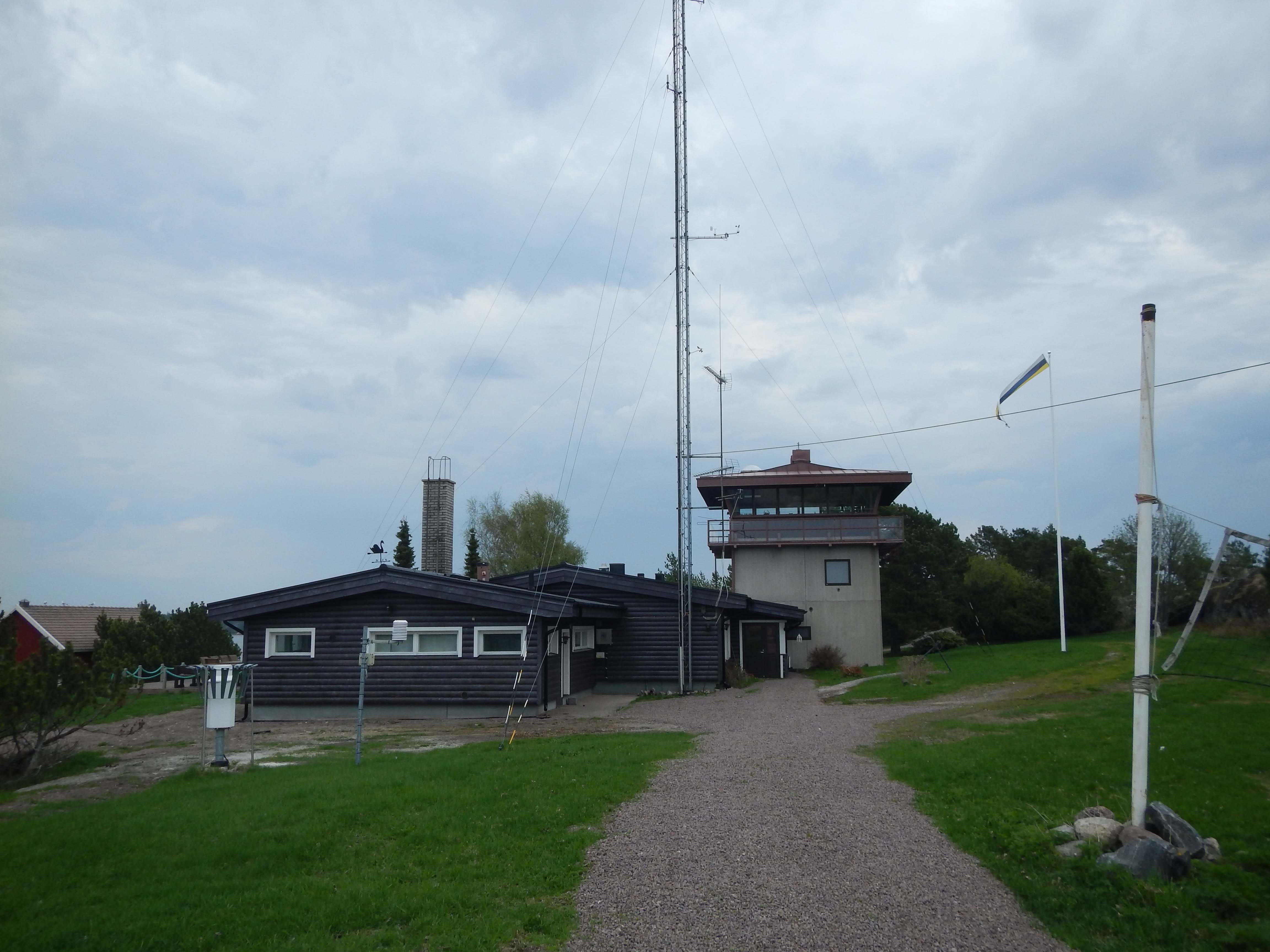 Buildings on Fagerholm